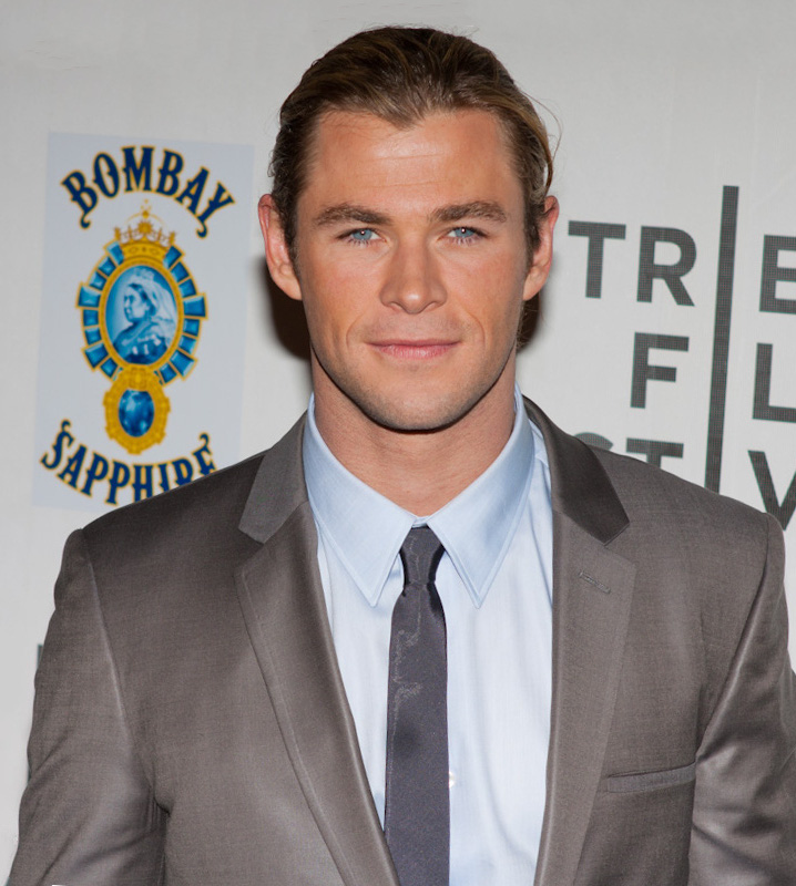 Chris Hemsworth at the Tribeca Film Festival, April 2012